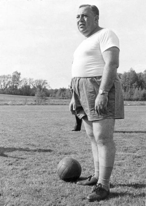 Brazil held their trainings at Hindås in Sweden before the 1958 FIFA World Cup. The picture shows the Brazilian coach Vicente Feola.